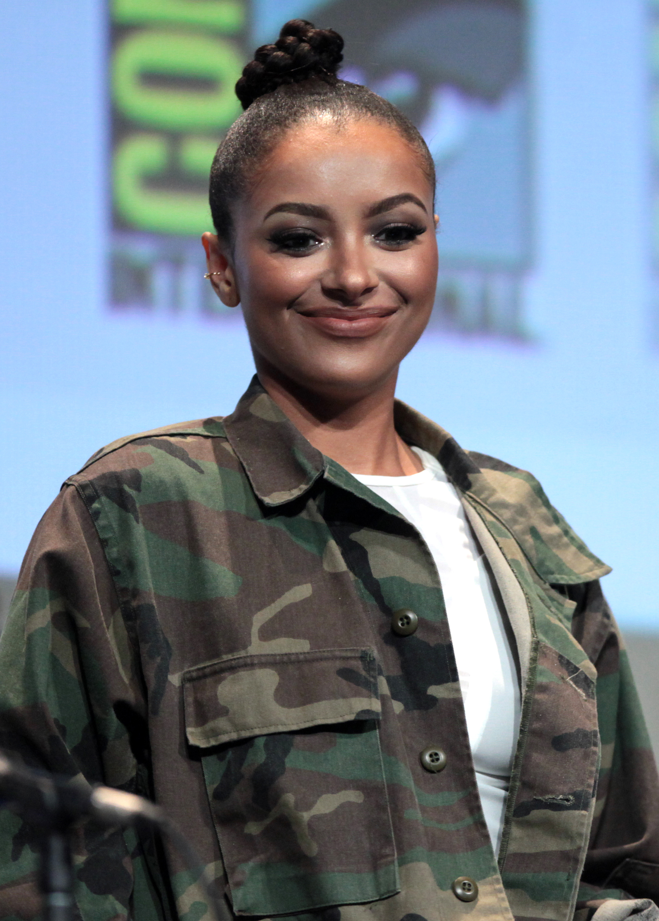 Kat Graham at the 2015 San Diego Comic Con International in San Diego, California.